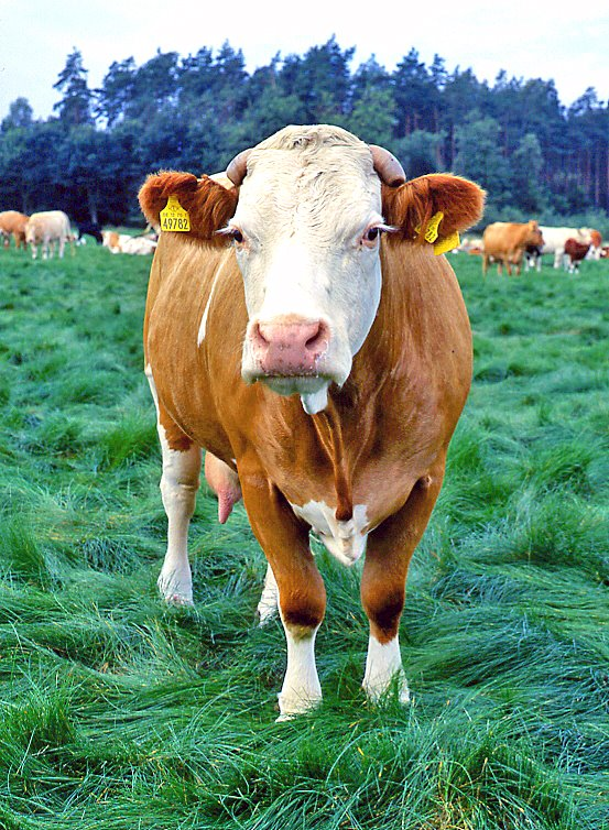 Hinterwald cattle